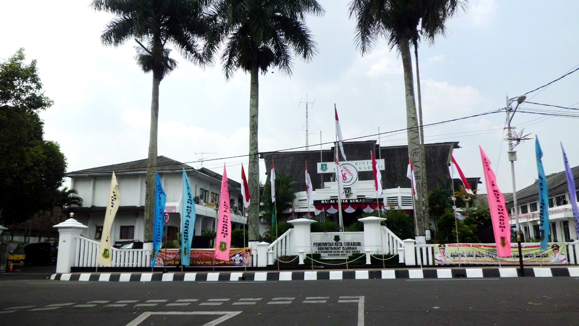 Chief administrative building of the City of Sukabumi, West Java, IndonesiaBahasa Indonesia: Bangunan administratif utama Kota Sukabumi, Jawa Barat, Indonesia